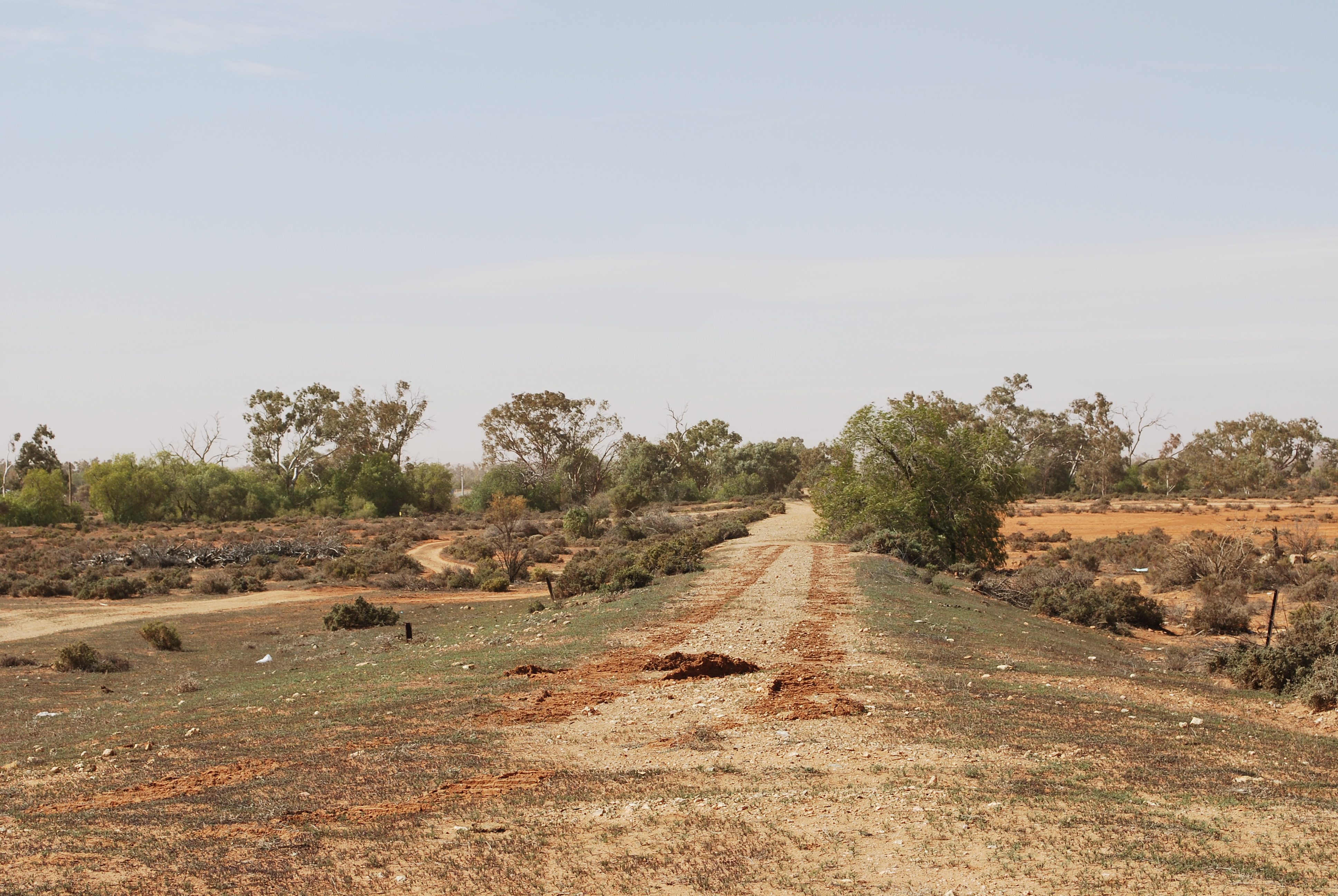 The former line of the Silverton Tramway at Silverton, New South Wales